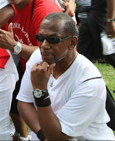 Photo of the 1st B-boy of Breaking in Hip Hop